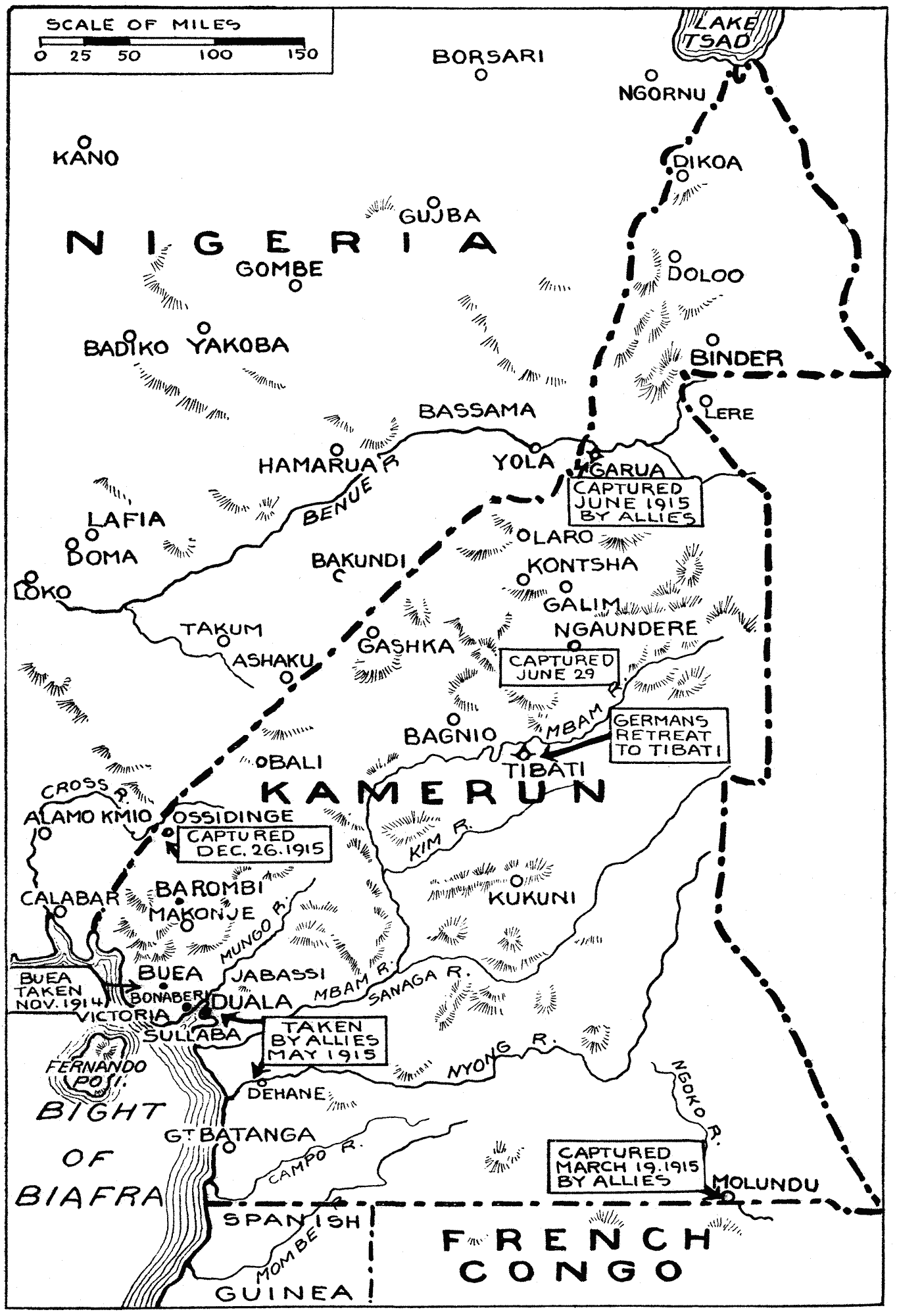 Map showing World War I actions in the German colony of Kamerun.